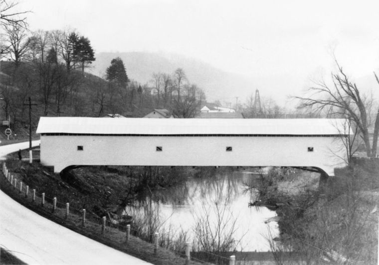 The West Union Covered Bridge (1843) at West Union, Doddridge County, West Virginia, as it appeared in the early 20th century. It spanned Middle Island Creek and was destroyed in a flood in 1950.